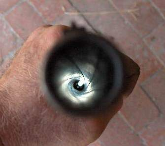 Exellent bore with 5 groove of Snider-Enfield MKIII Carbine.